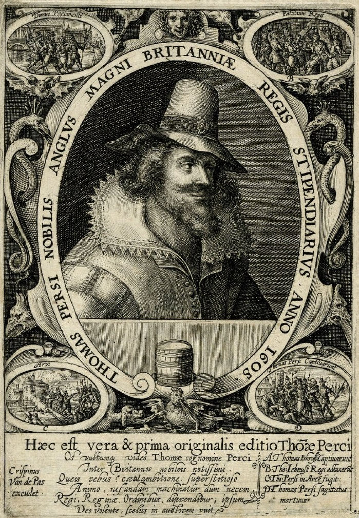 Portrait of Thomas Percy of the Gunpowder Plot by the Dutch engraver Crispijn van de Passe the Elder, engraving. 152 mm x 105 mm. Courtesy of the British Museum, London.